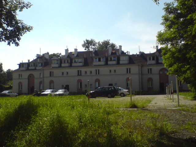 Bemowo - Radiowa 27 street